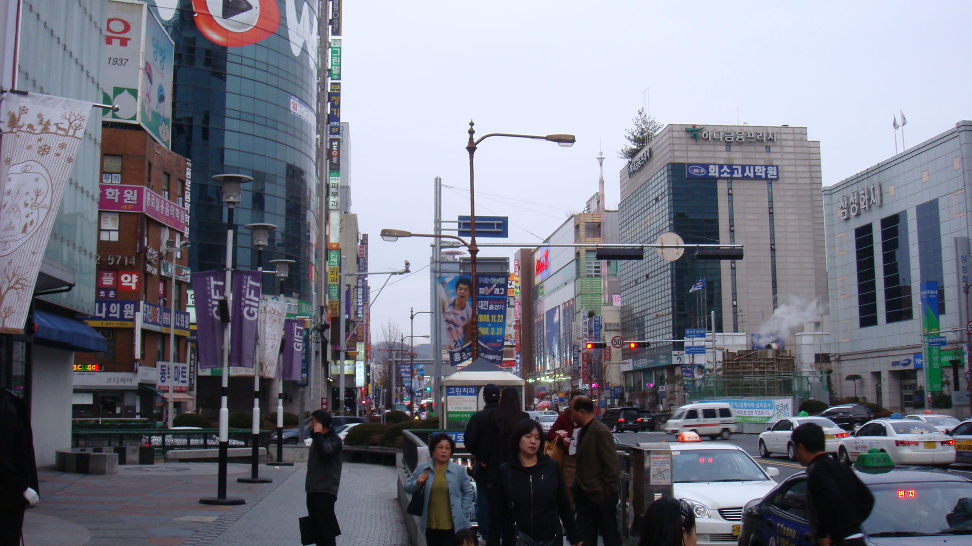 thanks to the Commonist